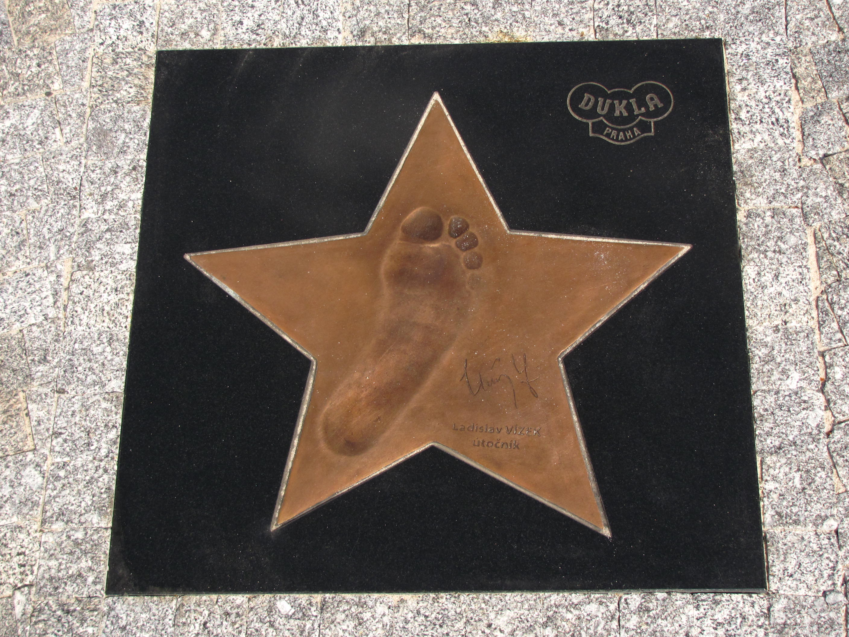 Ladislav Vízek, Czech football player (forward) – Star of Fame in Juliska Park near football stadium of Dukla Praha in Prague 6 - Dejvice.